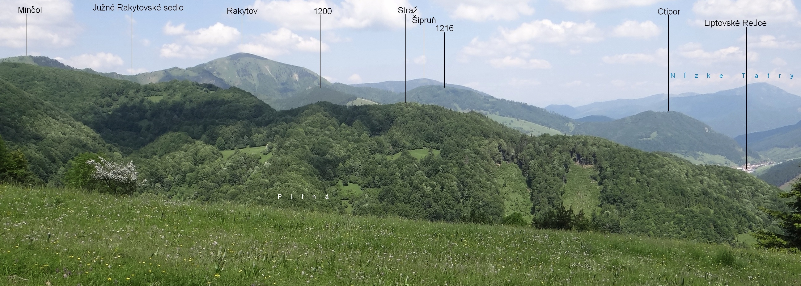 View from Magury